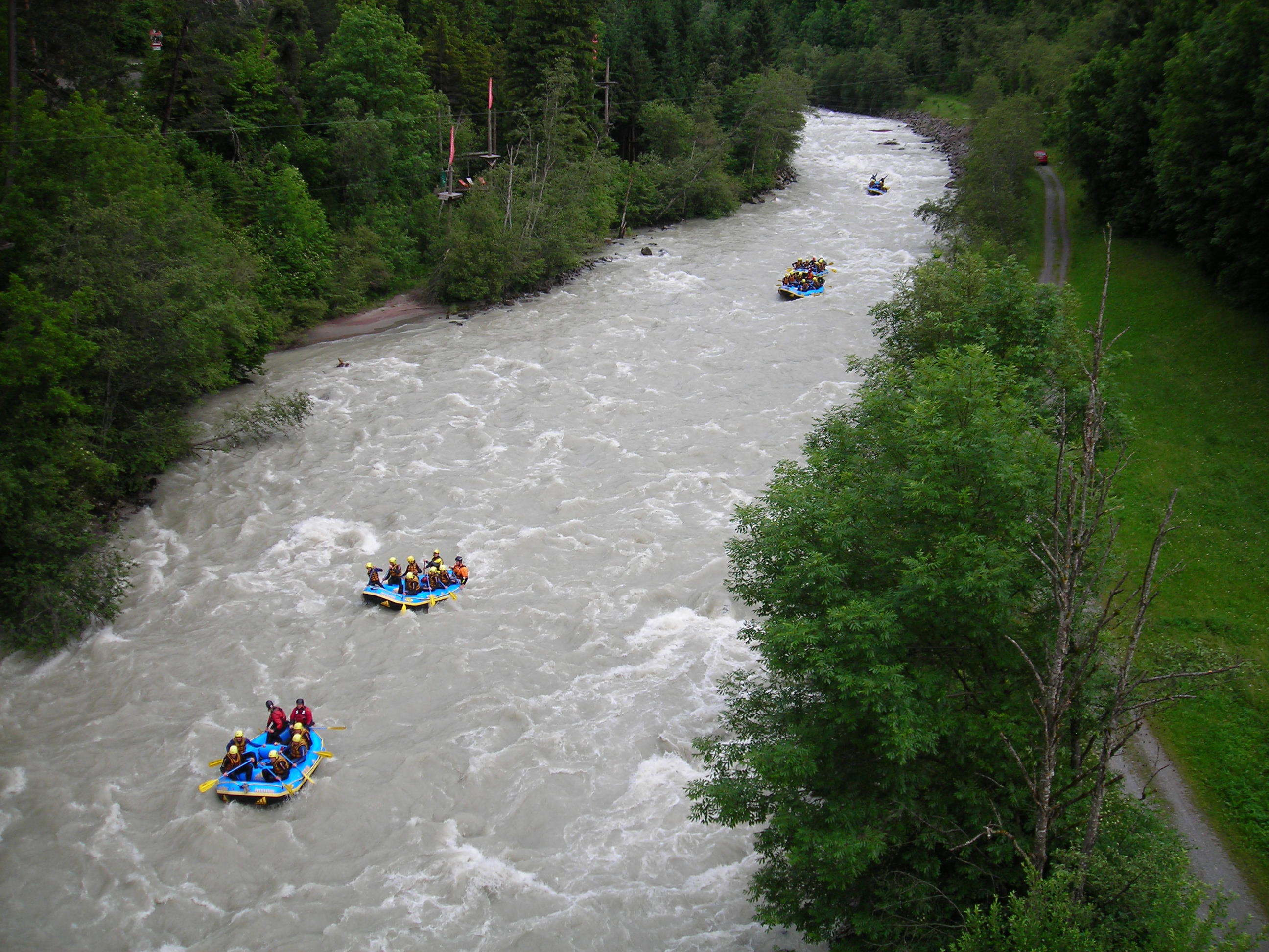 Rafting on the Oetz river